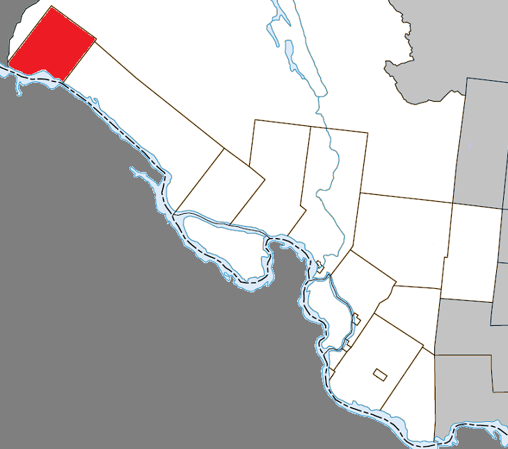 Location of Rapides-des-Joachims, Quebec within Pontiac Regional County Municipality.